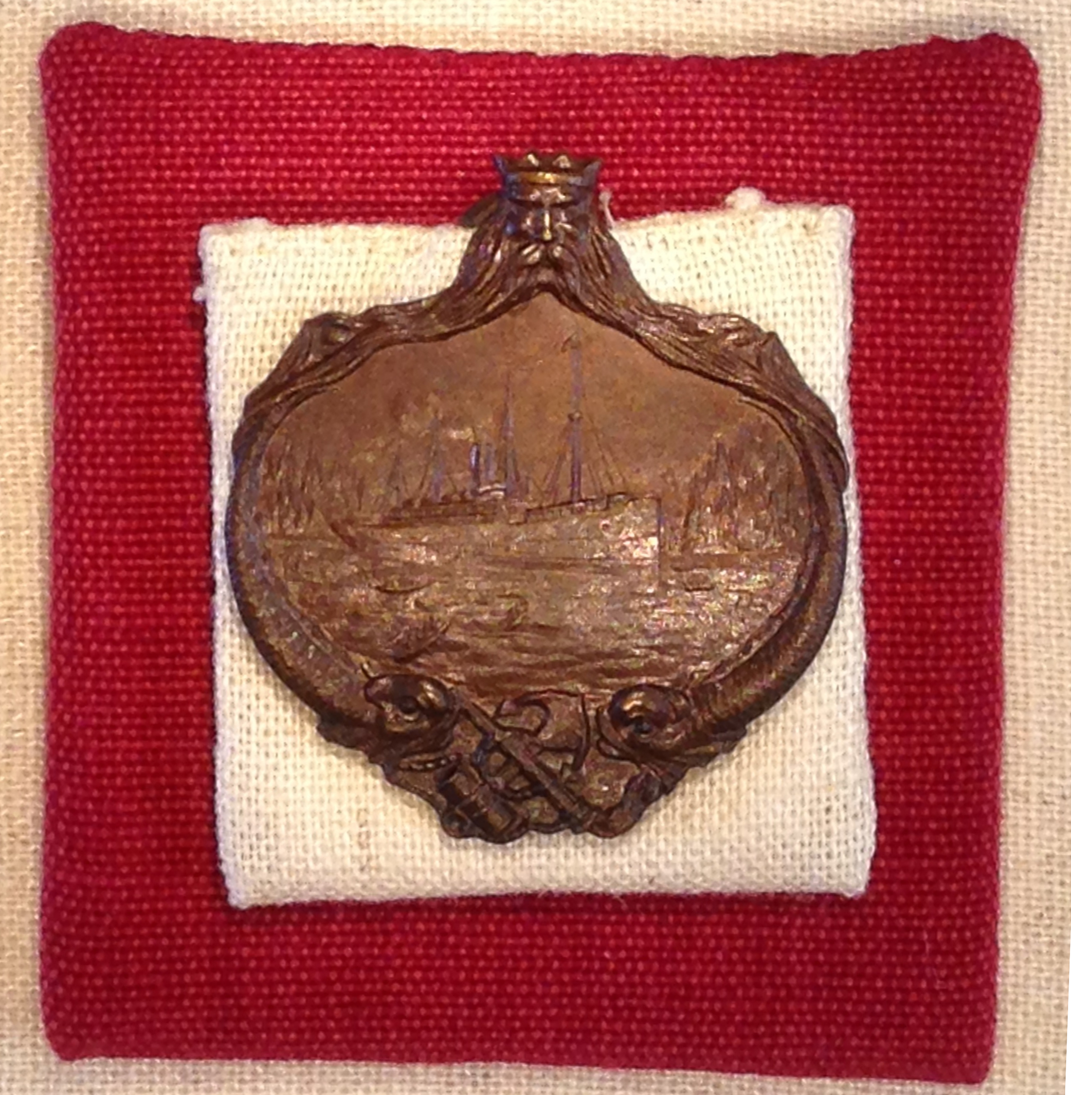 One of 320 Carpathia medals, struck in gold, silver and bronze and awarded to the officers and crews of the RMS Carpathia in recognition of their rescue of survivors of the sinking of the RMS Titanic. The medals were presented to the crew in New York, six weeks after the Titanic sinking. On display at Melbourne Museum, Australia.